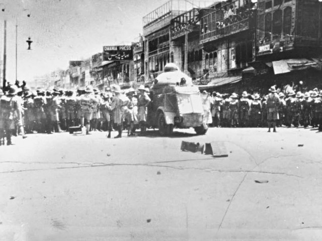 Unarmed protesteors in Peshawar fired on during the Qissa Khwani Bazaar massacre.